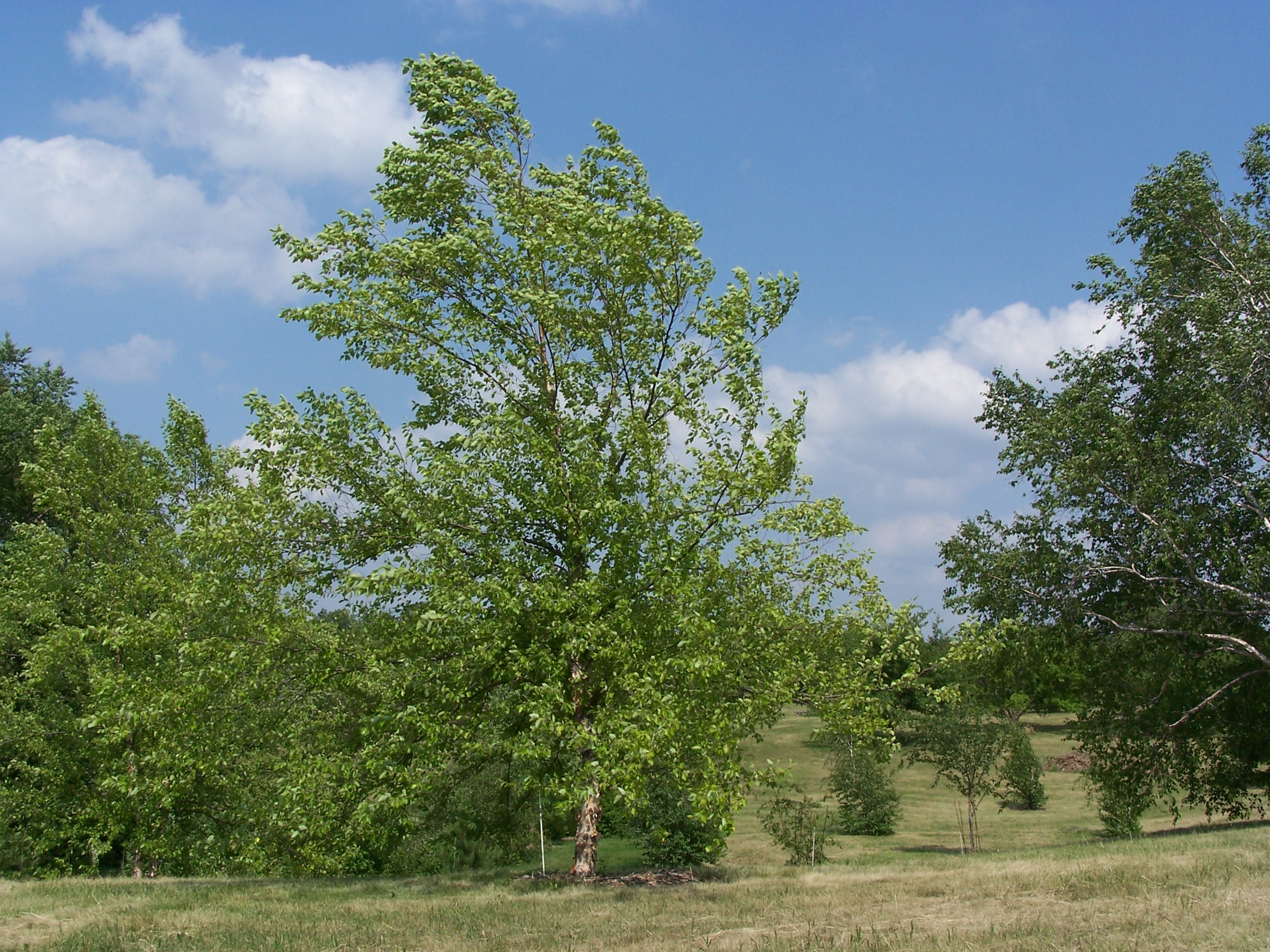 River Birch (Betula nigra) at Minnesota Landscape Arboretum